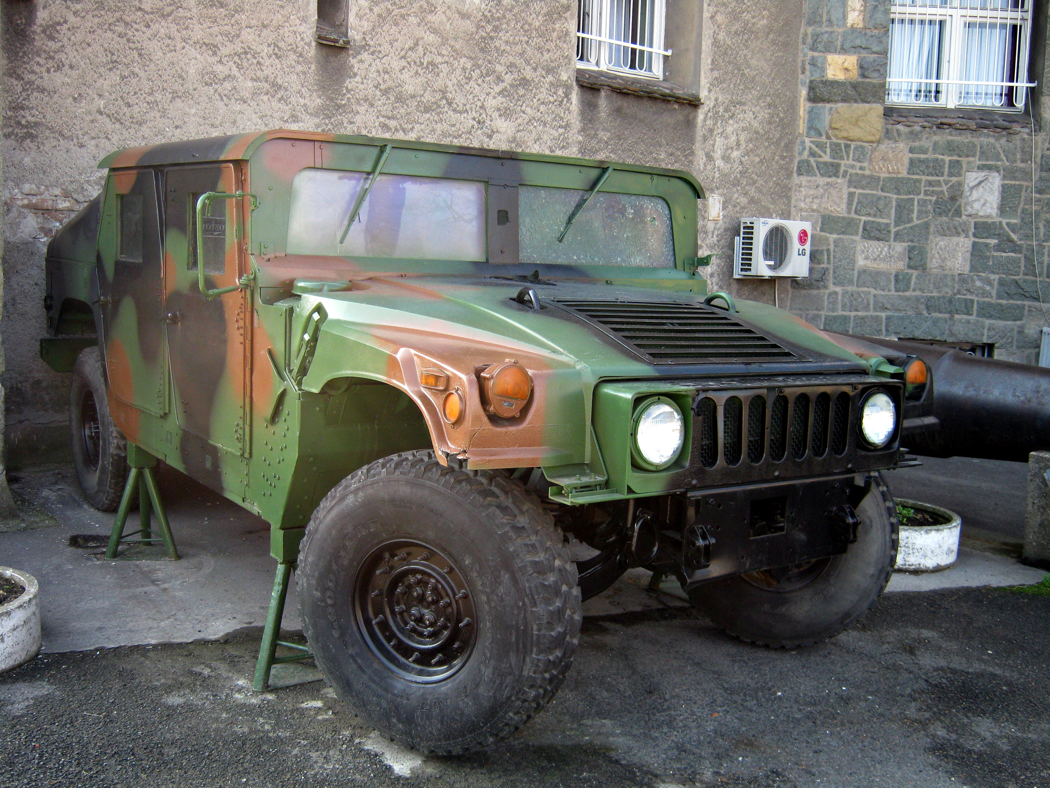 Humvee Belgrade Military Museum